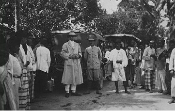 The europeans arrive at the bus station panyabungan